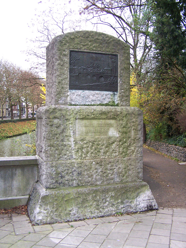 Memorial monument of the redrawn of the French troops out of Utrecht in 1813 placed in the corner of the Tolsteegbrug. Its made by Koninklijke Begeer and designed by Carel Willem Wagenaar in 1913.